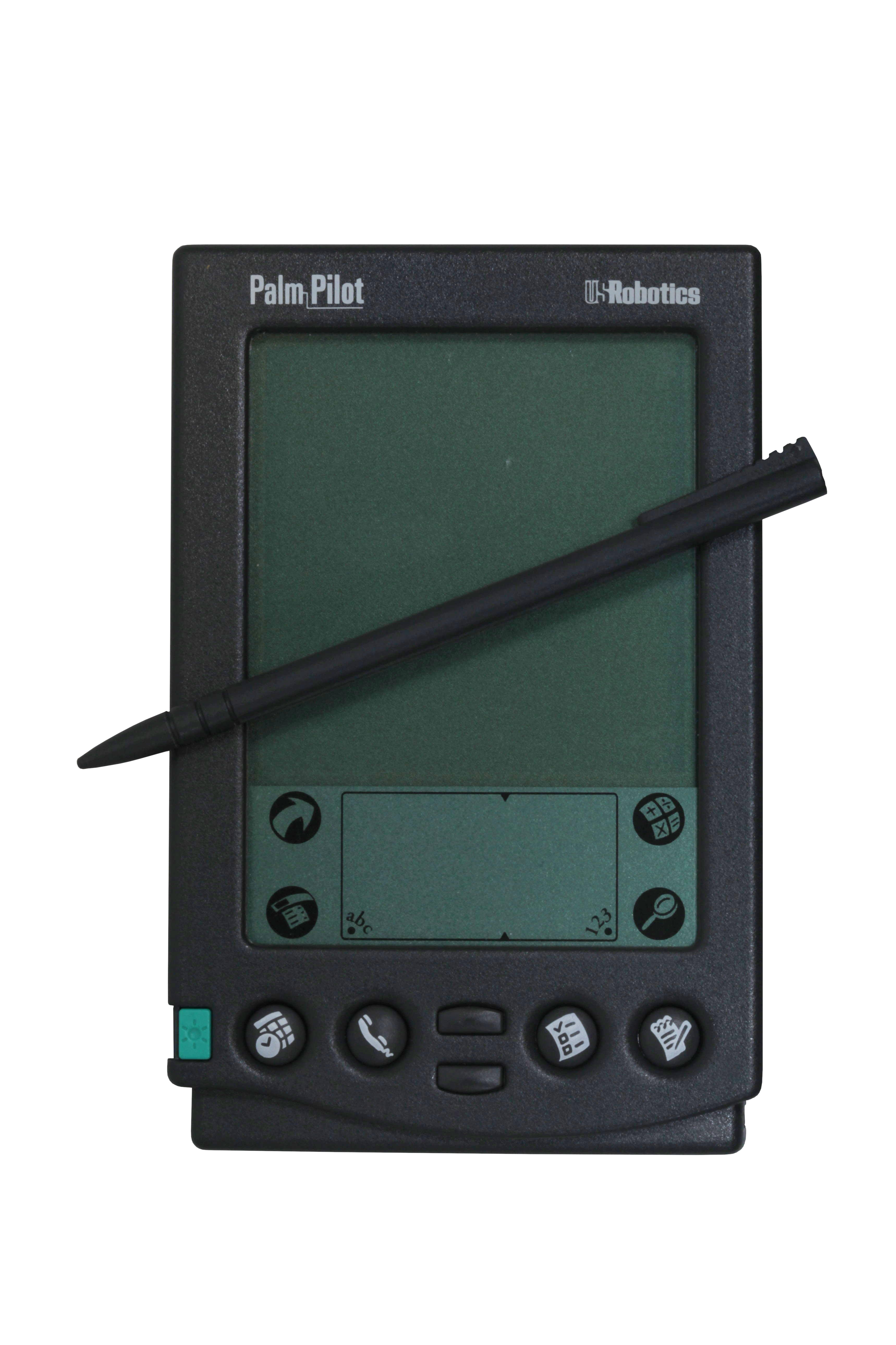 PalmPilot organiser. On display at the Musée Bolo, EPFL, Lausanne.